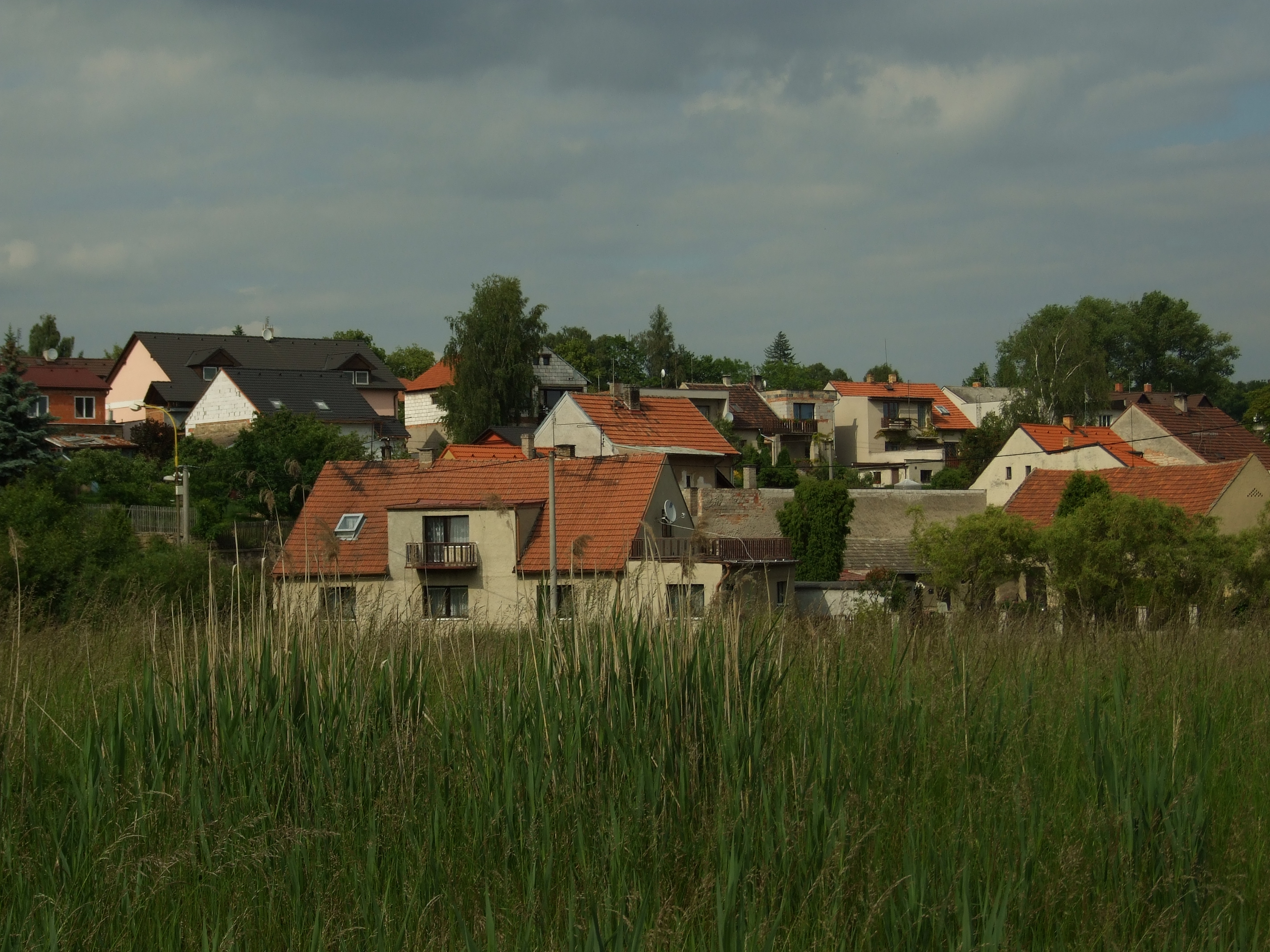 Town of Doksy and its surrounding nature in Central Bohemian region, CZhelp